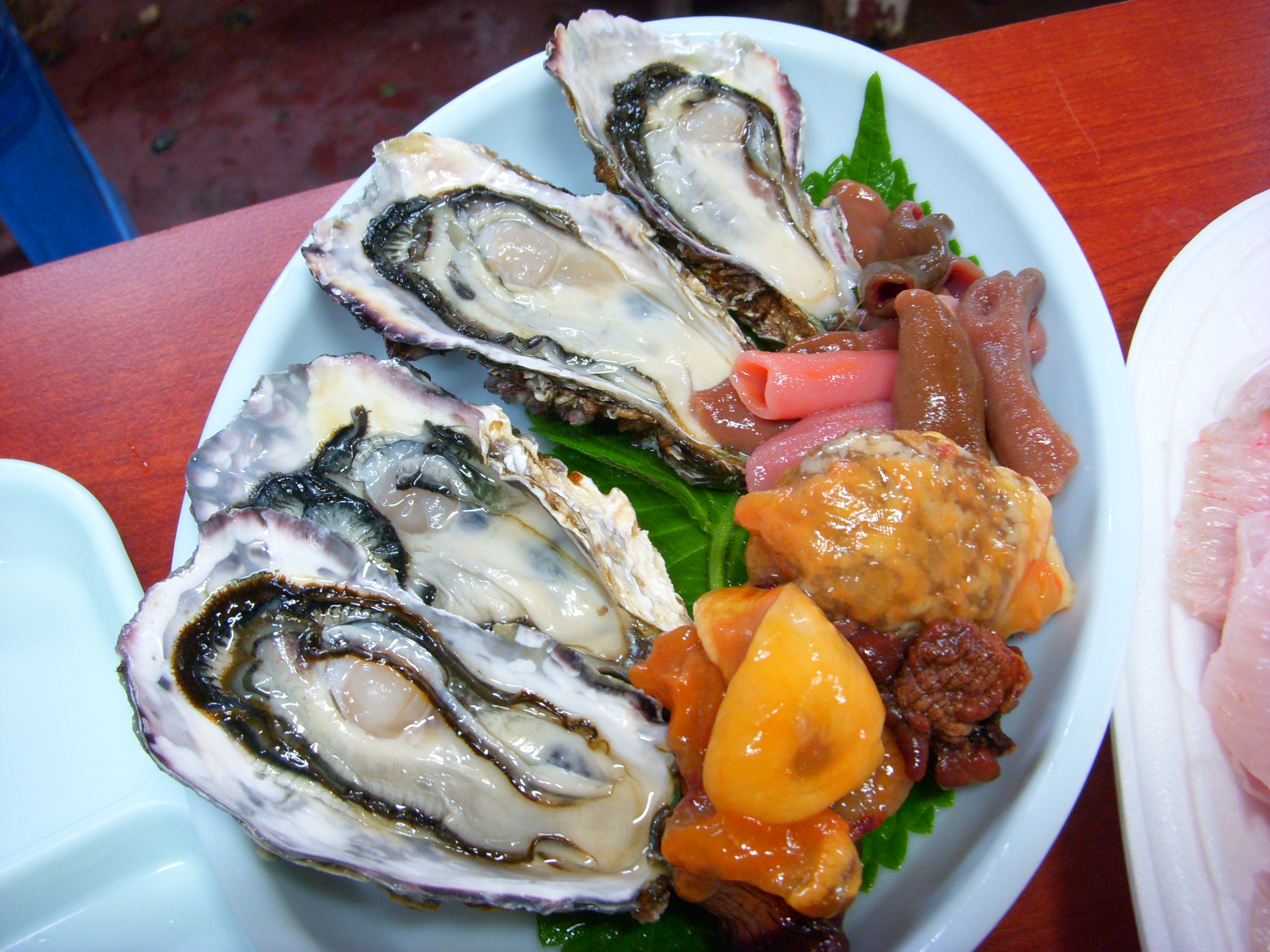 Various hoe, a raw seafood dish in Korean cuisine. Oyster, sea squirt, geoduck hoe.